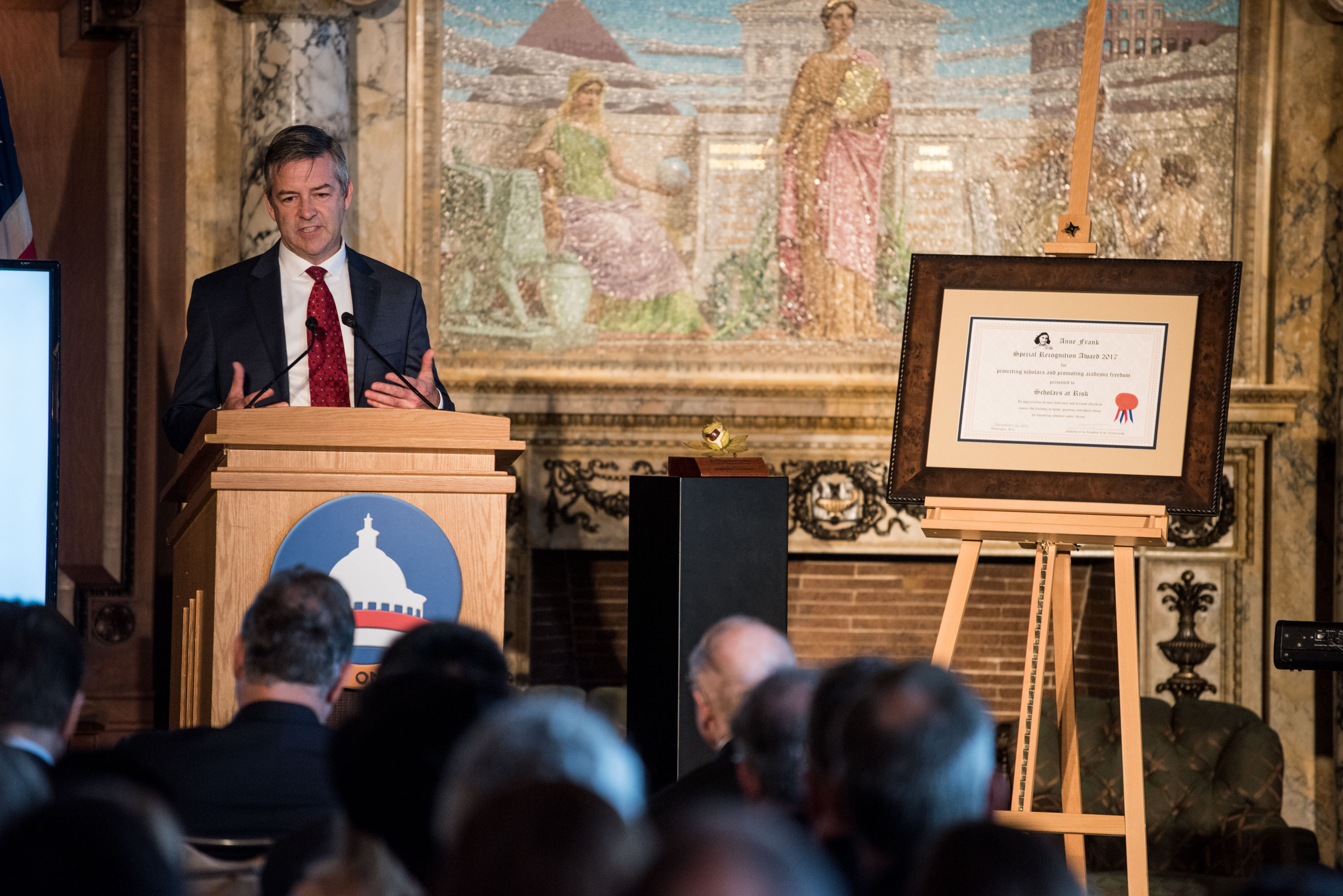 Anne Frank Awards, 09-14-2017, Library of Congress, Washington DC, photos: Stephen Voss